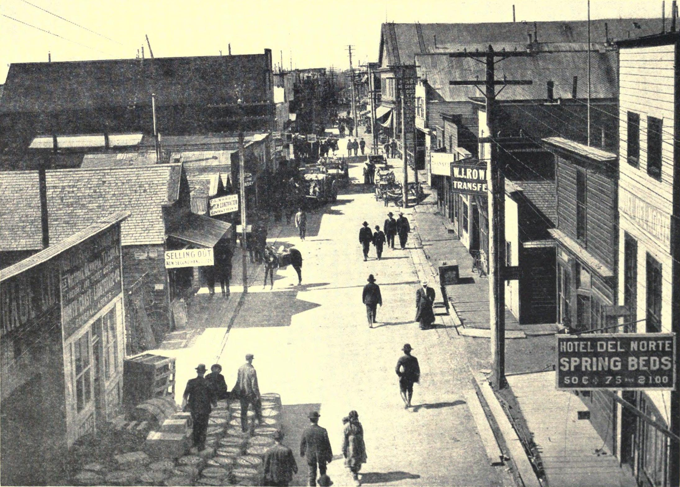 View of Front Street, Nome, Alaska about 1908 or a little earlier.